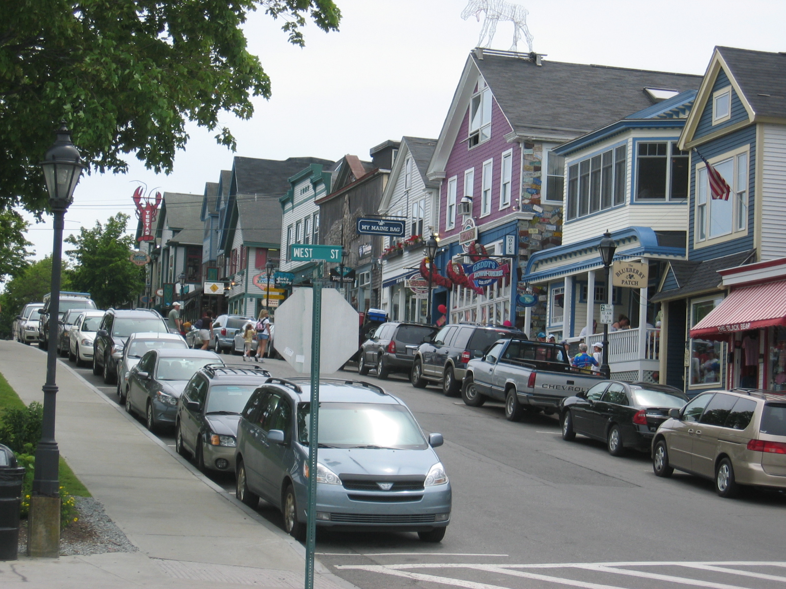 Main Street at West Street, Bar Harbor, Maine.